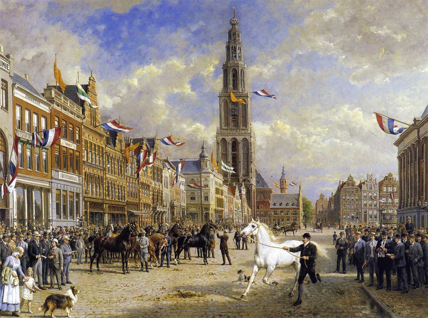 1920 Groningen stallion approval show by Otto Eerelman